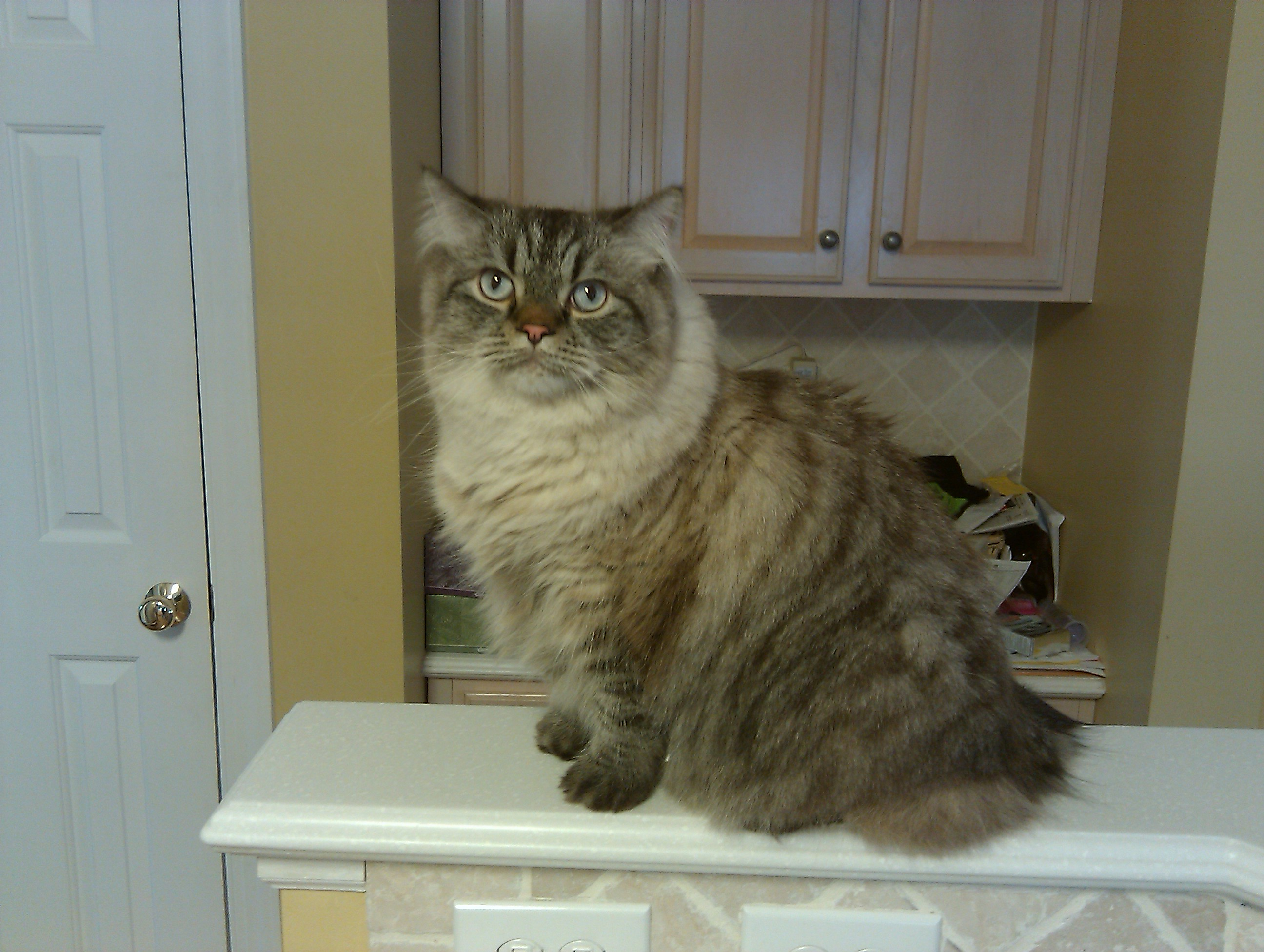 A seal point lynx (tabby) Himalayan cat